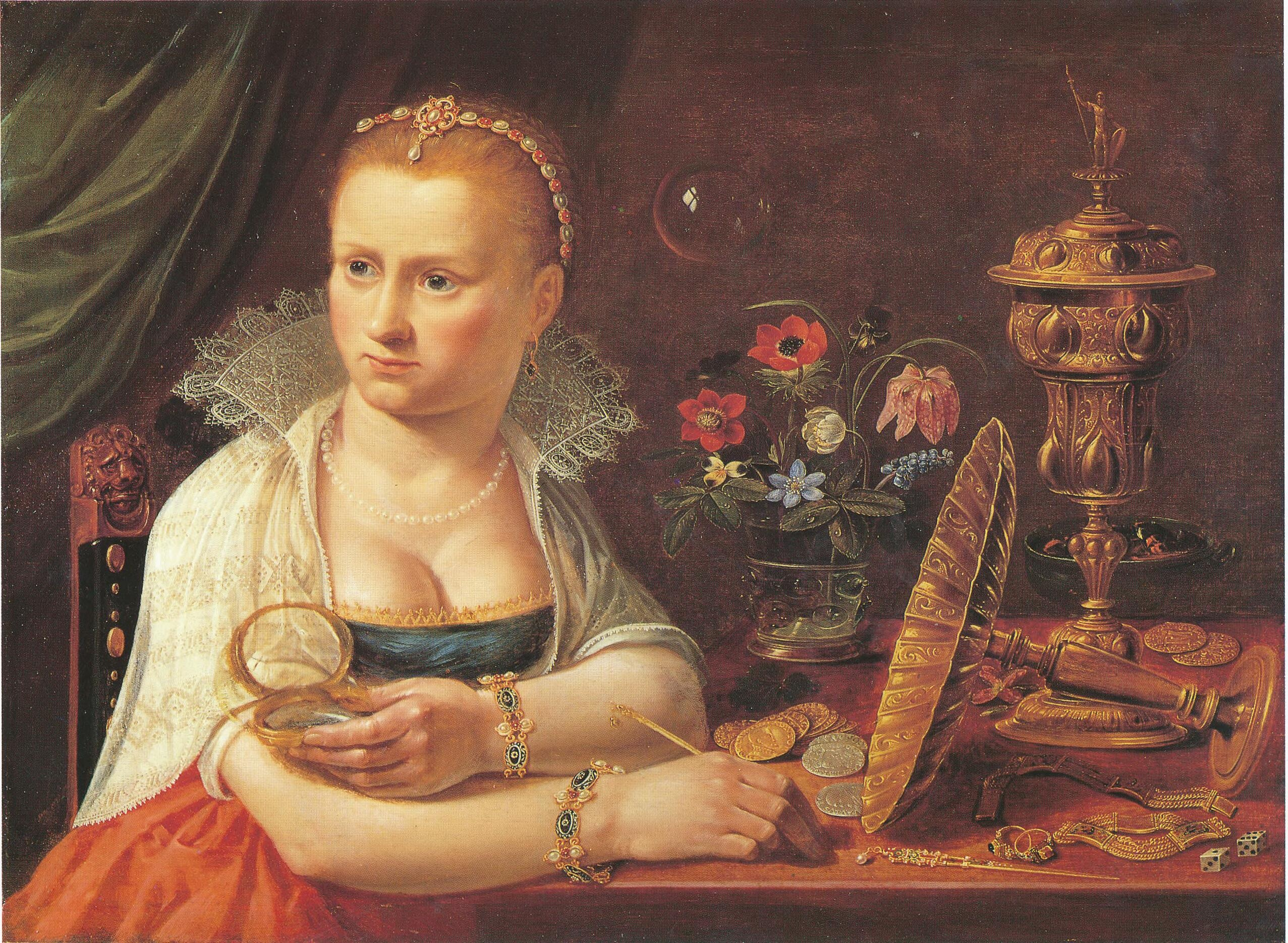 Possibly self-portrait of Clara Peeters, seated at a tabel with precious objects